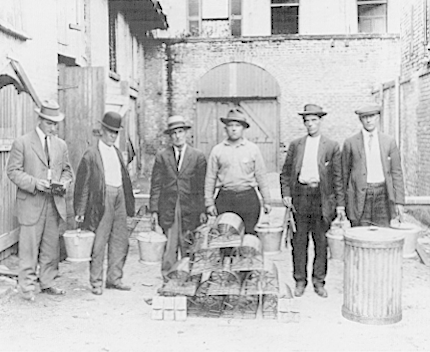 Rat trappers in 1914, New Orleans. There was an outbreak of the bubonic plague in New Orleans. Officials, knowing that the plague was transmitted by fleas carried by rats, sent these men out to capture and kill the spreaders of disease.